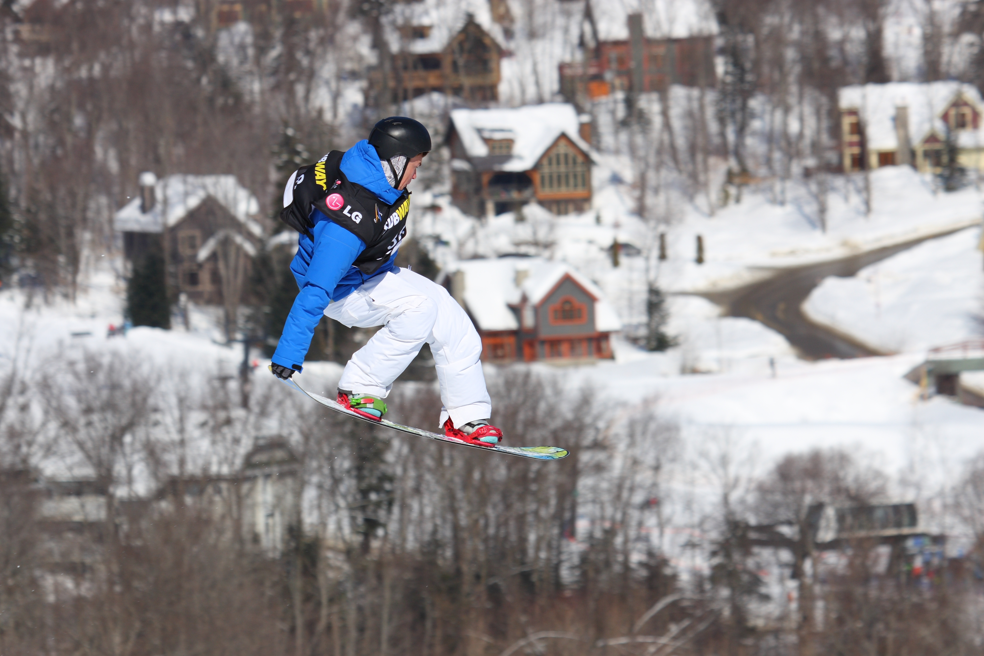 Sergey Lapushkin, Slopestyle LG/FIS World Cup 2012, Stoneham ski resort, Quebec, Canada.